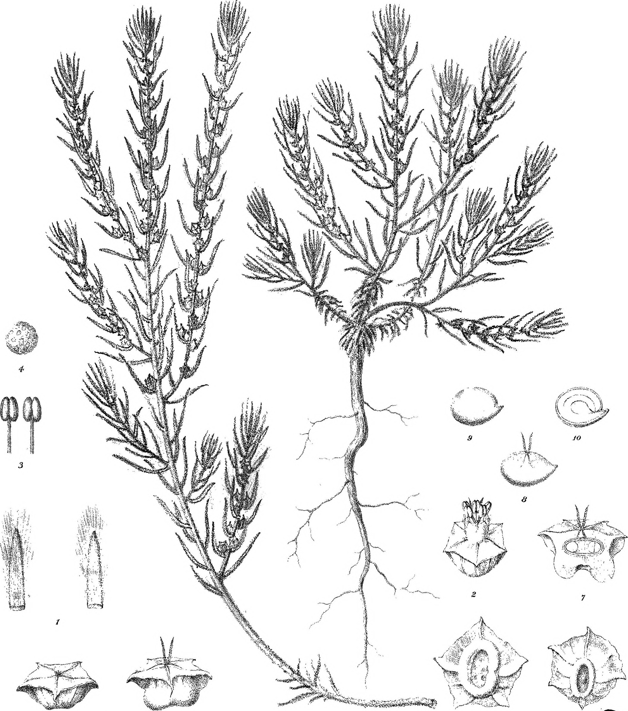 Title: Iconography of Australian salsolaceous plants Year: 1889 (1880s) Authors: Mueller, Ferdinand von, 1825-1896 Subjects: Shrubs; Salsoleae Publisher: Melbourne, Brain Text Appearing Before Image: ux Text Appearing After Image: â "'kii^^i^ "'Â»^ipli(slk^ilÂ©ipa FvM